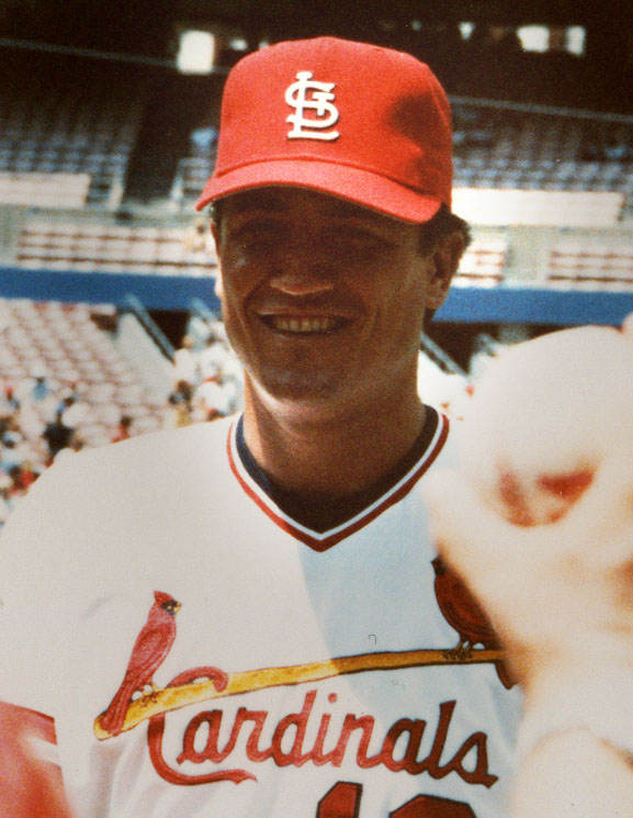 Catcher Clint Hurdle.